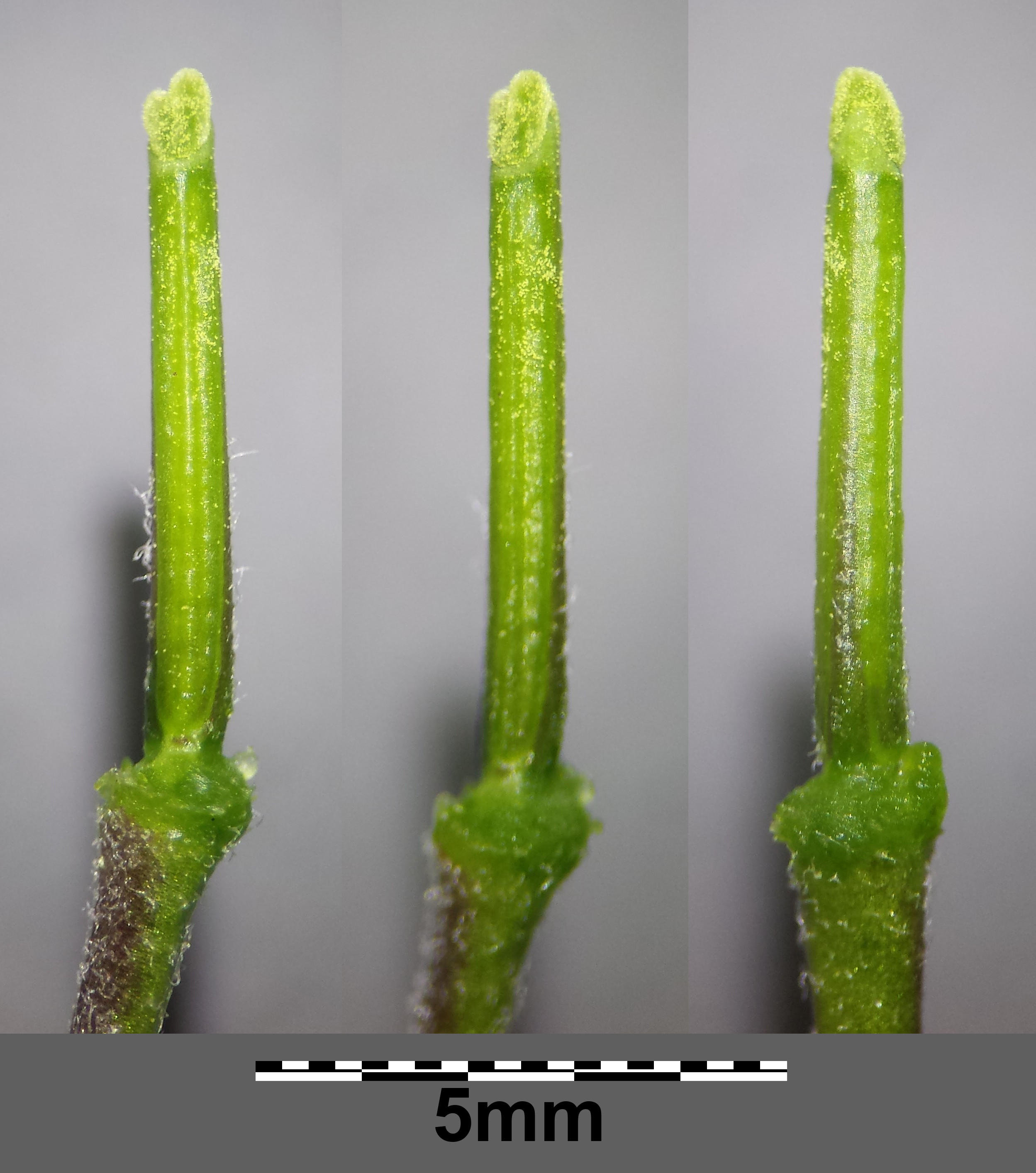 Ovary Taxonym: Hesperis matronalis subsp. matronalis ss Fischer et al. EfÖLS 2008 ISBN 978-3-85474-187-9 Location: near Niederhollabrunn, district Korneuburg, Lower Austria - ca. 350 m a.s.l. Habitat: garden